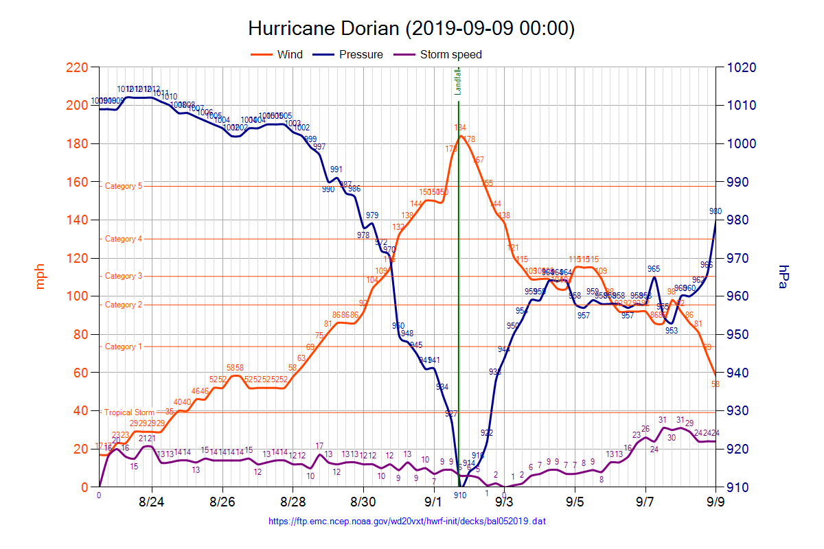 Hurricane Dorian chart 2019-09-09 0000